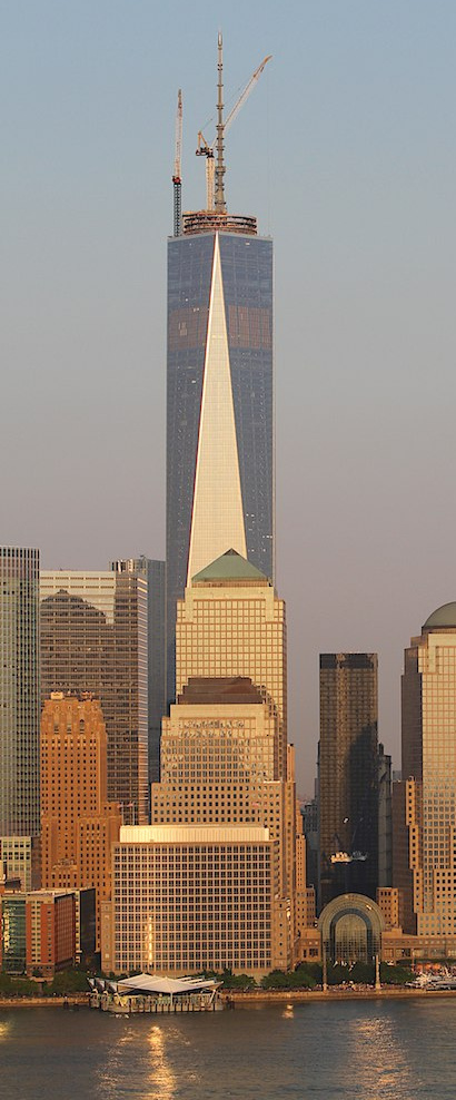 One WTC as of 6.1.2013 with glass completed.